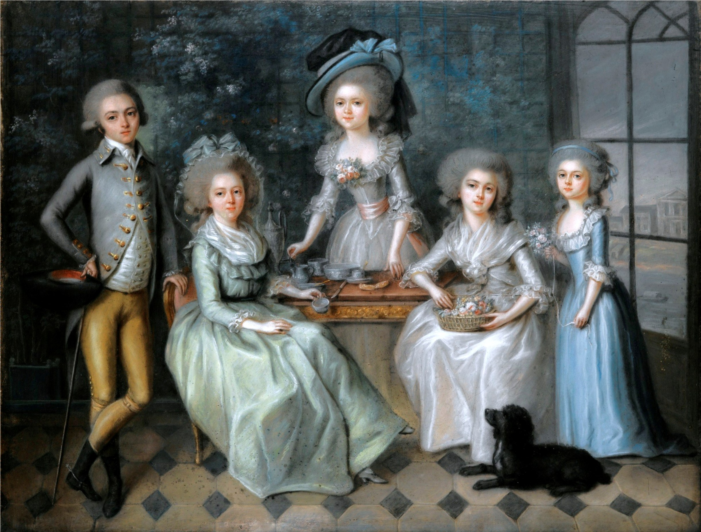 Marie-Aurore de Saxe, Countess de Horn, then Madame Dupin de Francueil, (1748-1821) was the natural daughter of Marshal Maurice de Saxe, but also the grandmother of George Sand. Free-thinker, she was a follower of philosophers such as Voltaire, Jean-Jacques Rousseau or Buffon.